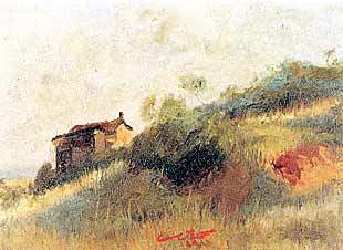 Country House